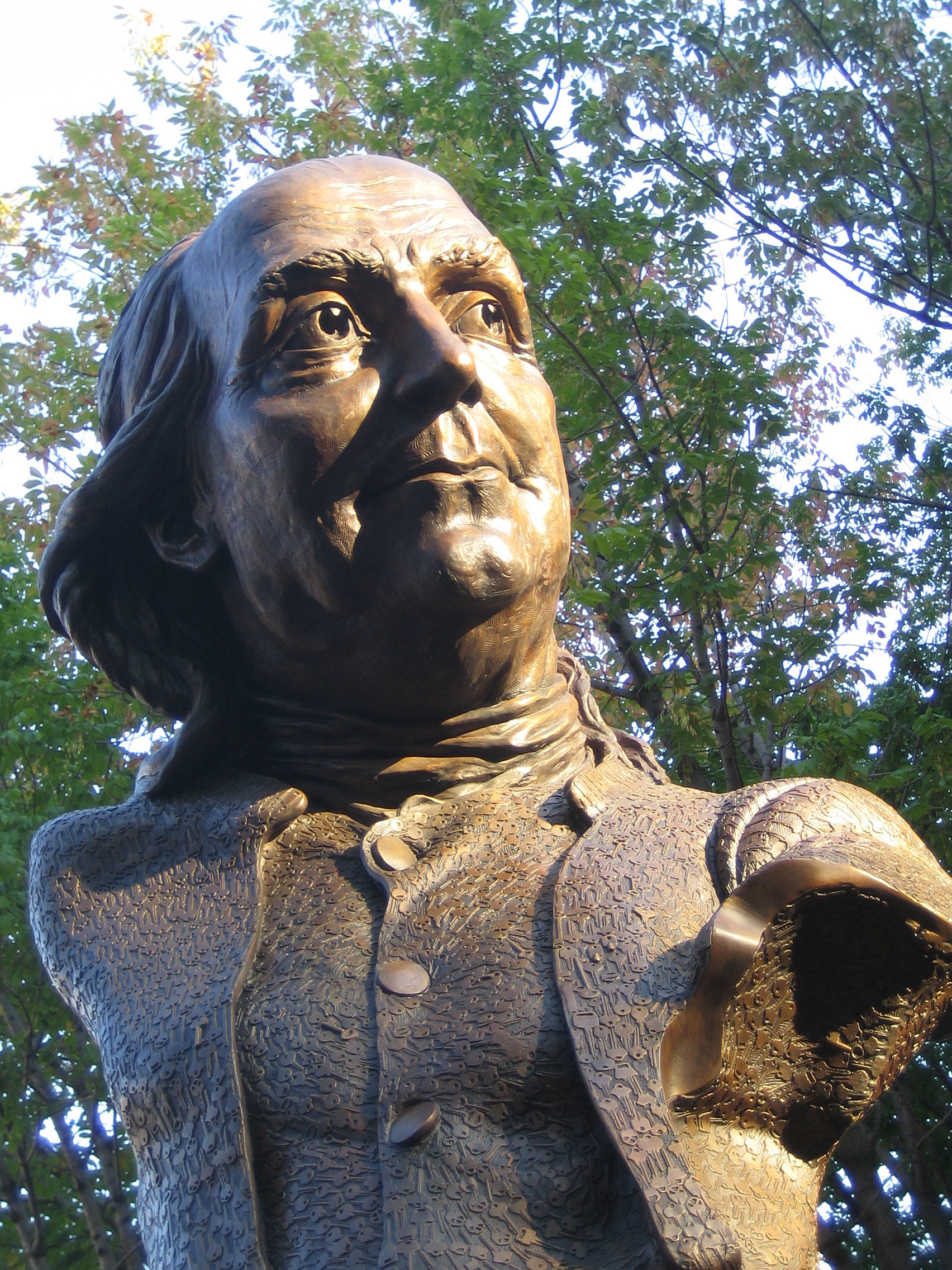 Keys To Community, a nine-foot bronze sculpture of Benjamin Franklin by James Peniston, installed in 2007 in Girard Fountain Park in the Old City neighborhood of Philadelphia, Pennsylvania. The sculpture was funded by the city's arts agency, the fire department, and a penny drive in local schools.